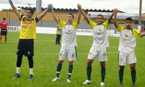 Player of Vilense professionalized.